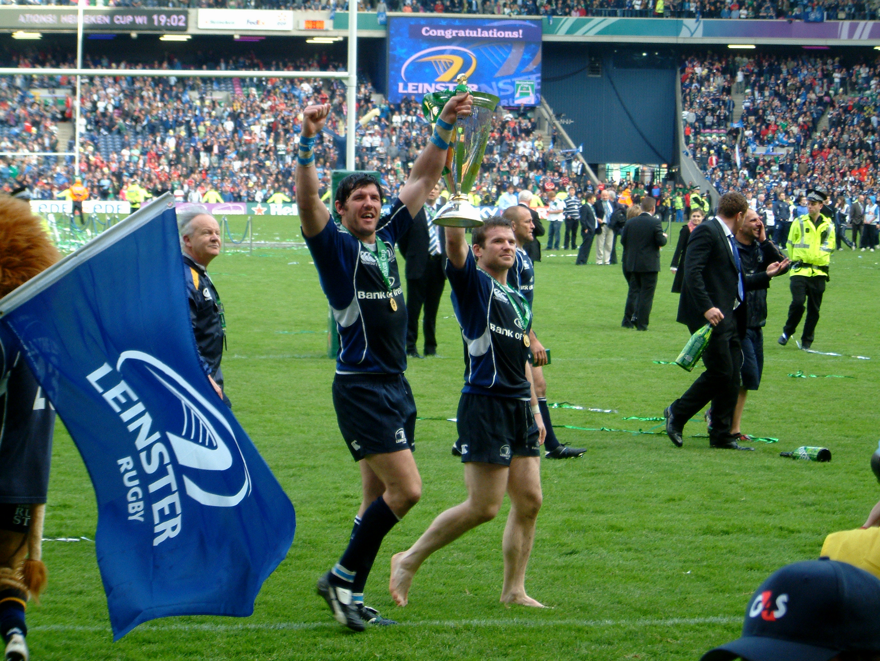 Irish international Shane Horgan (left) and Gordon D'Arcy displaying the Heineken European Rugby Cup to the crowd and Murrayfield